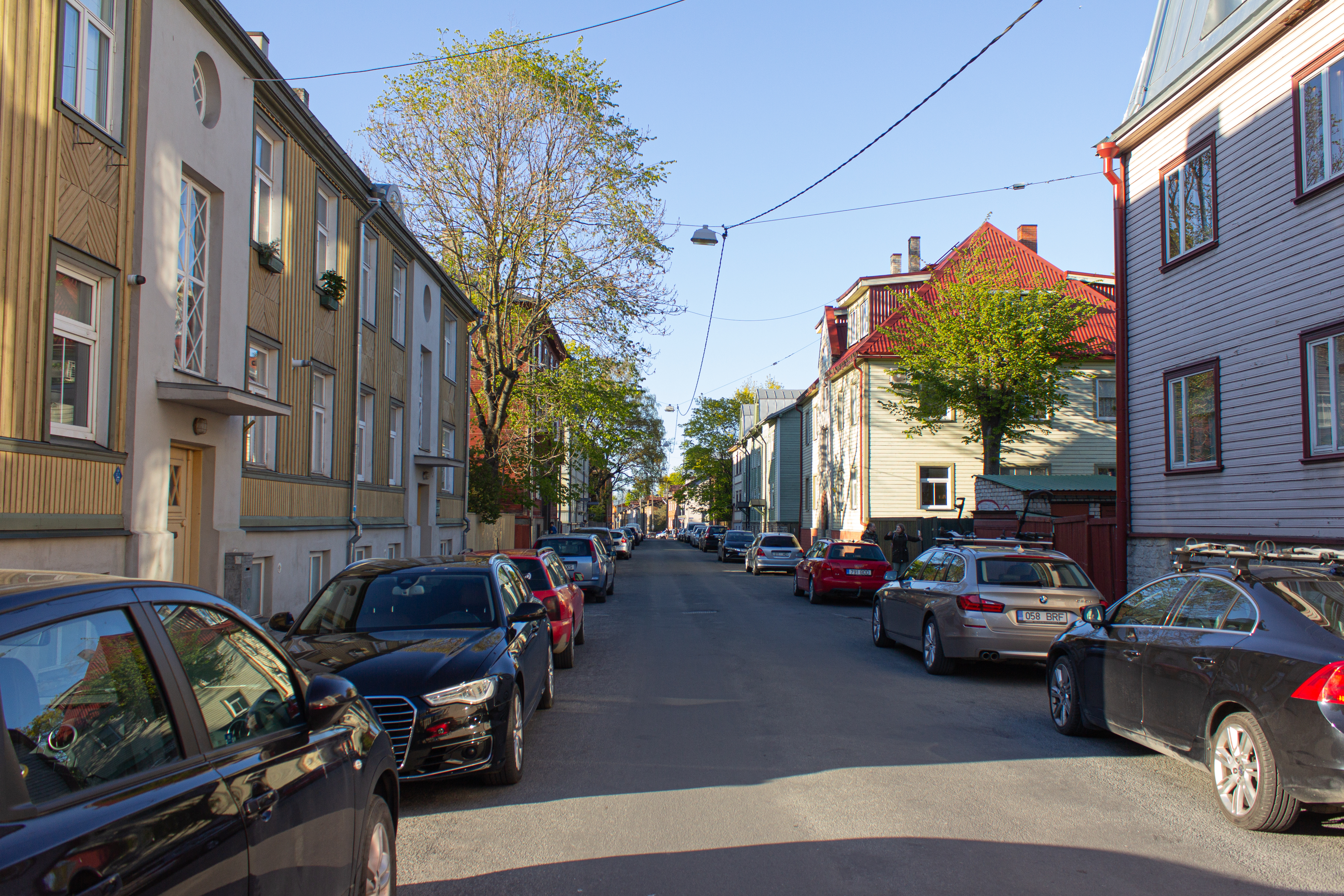 Salme Street, Kalamaja Suburb in Tallinn (2020-05-22)